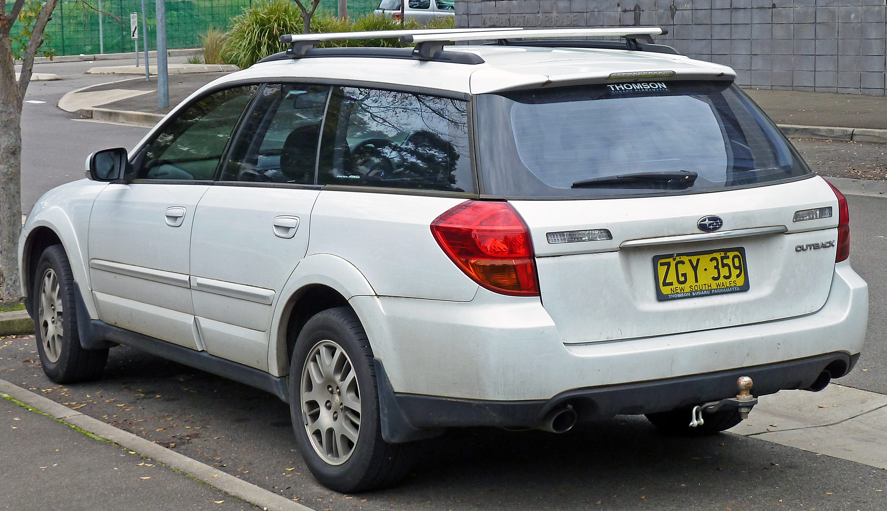 2003 Subaru Outback 2.5i station wagon. Photographed in Zetland, New South Wales, Australia.